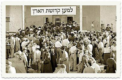 From an Agudat Yisrael conference in the 1940s. The banderole says "For the sanctity of the land."